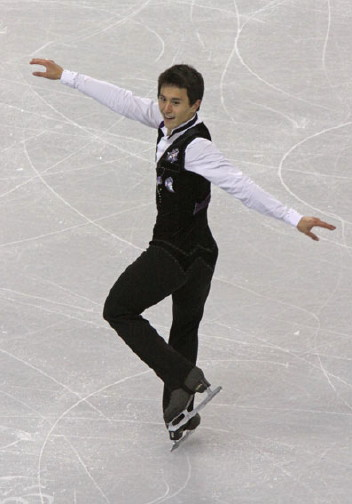 Patrick Chan competes his short program at the 2009 Four Continents Championships.